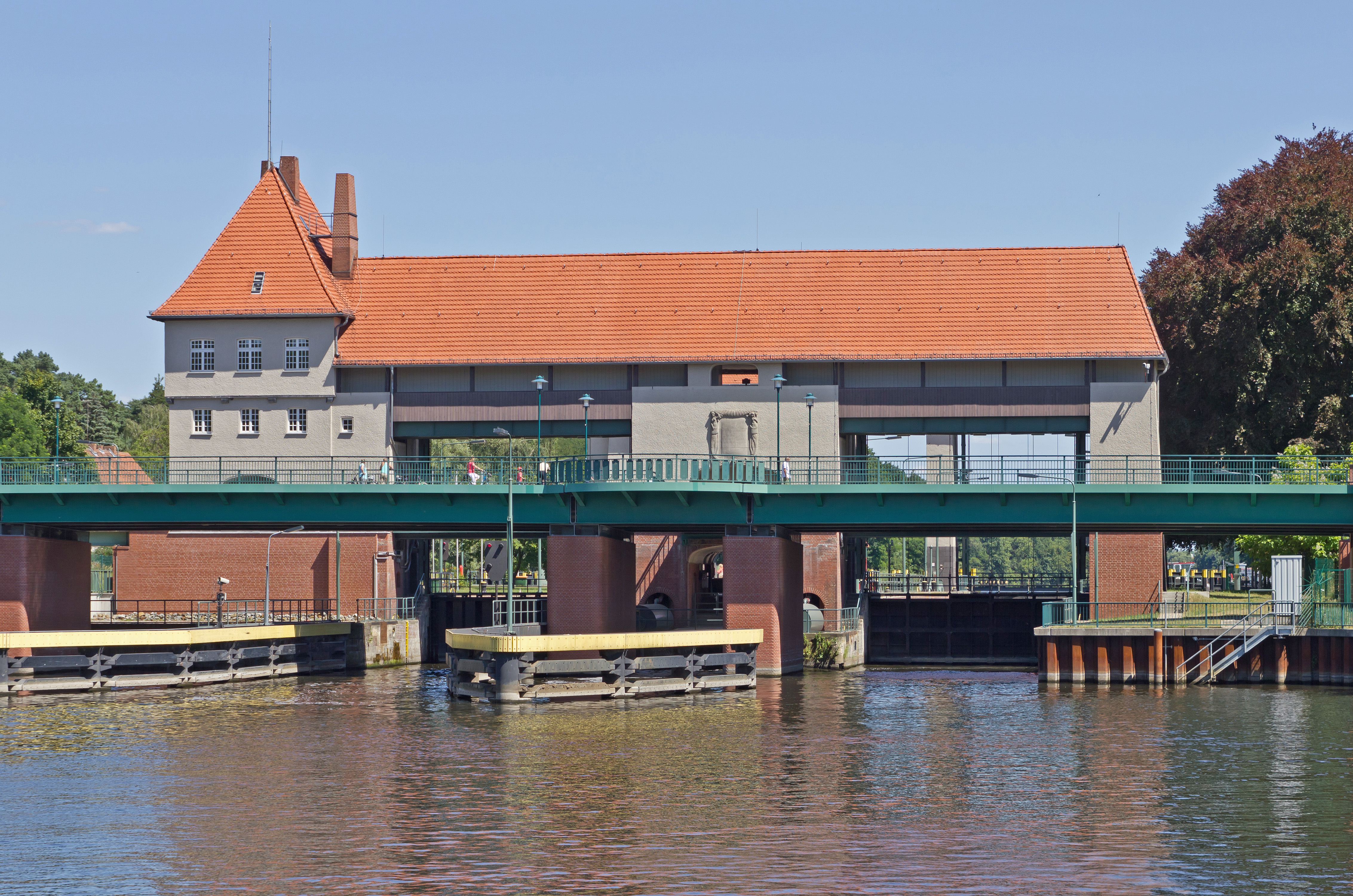 Canal lock in Kleinmachnow, Brandenburg, Germany